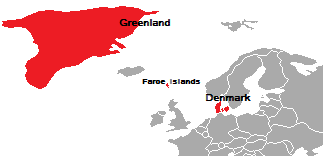 A map showing the locations of Denmark, the Faroe Islands and Greenland - the Kingdom of Denmark.